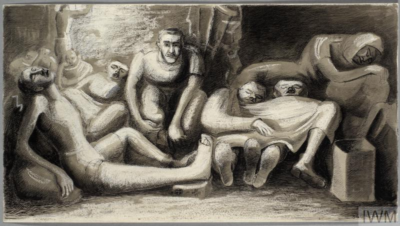 A group of men sleep on the floor of a truck in cramped conditions. One man is looking directly at the viewer, while another lies on the floor with a leg in plaster, resting on a small Red Cross parcel.